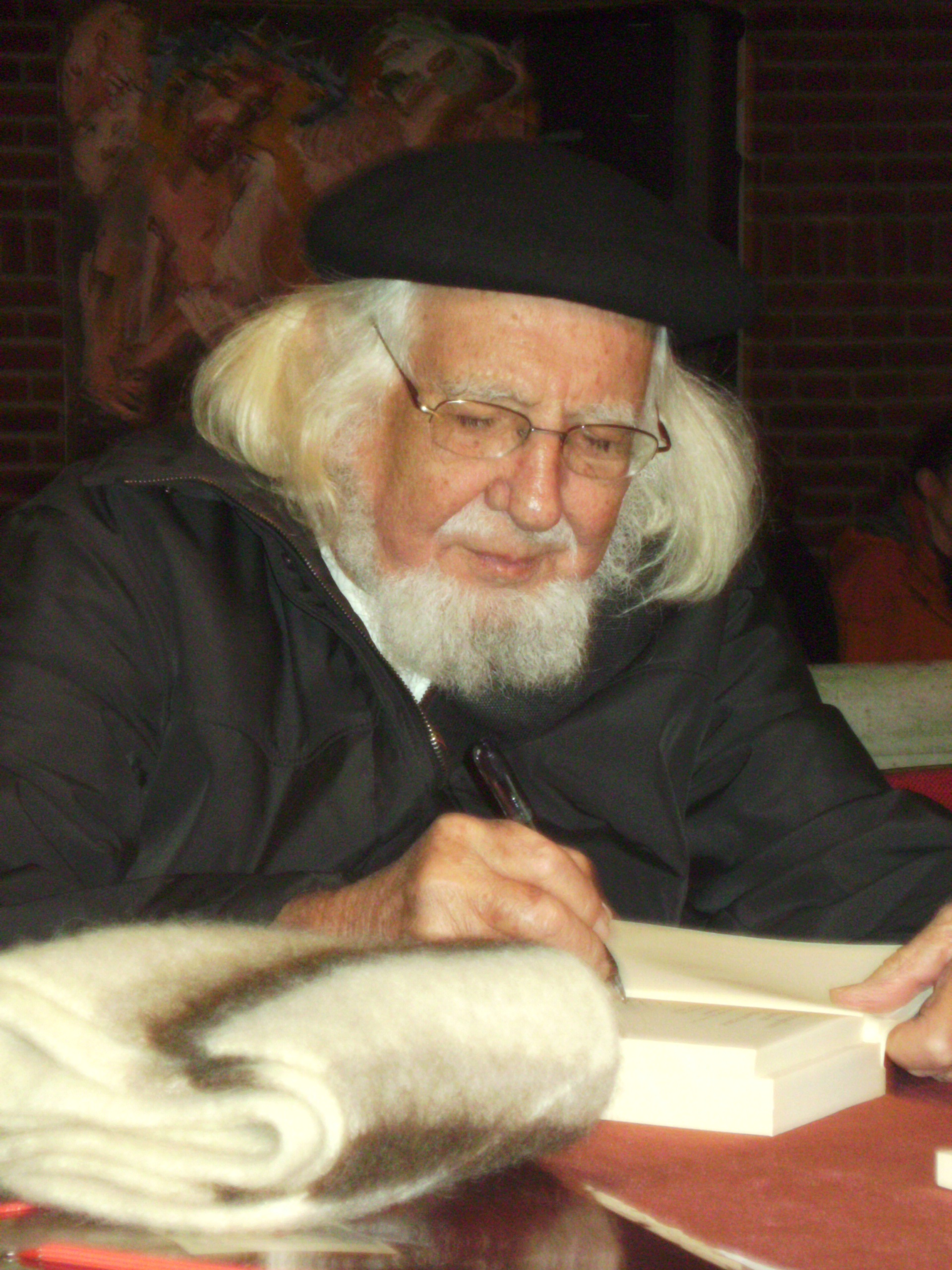 Ernesto Cardenal in Munich 2010